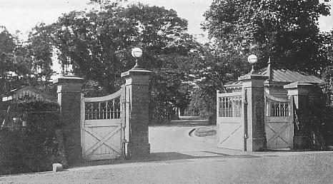 Gakushuin(Japanese Governmental Peers School) in 1933